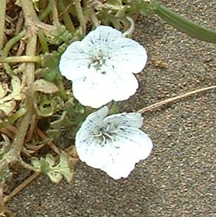 Nemophila menziesii var. atomaria — Baby blue eyes, annual wildflower. At Point Reyes National Seashore, Marin County, California.